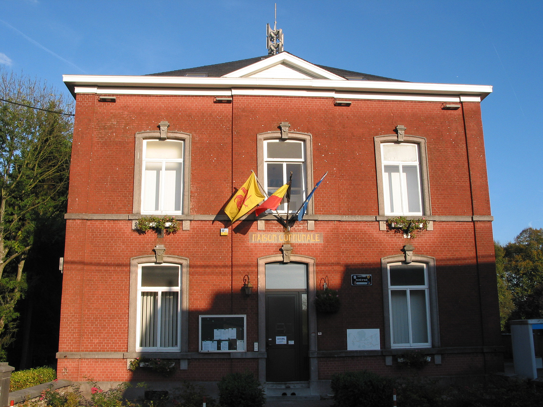 Neupré (Belgium), the town hall.